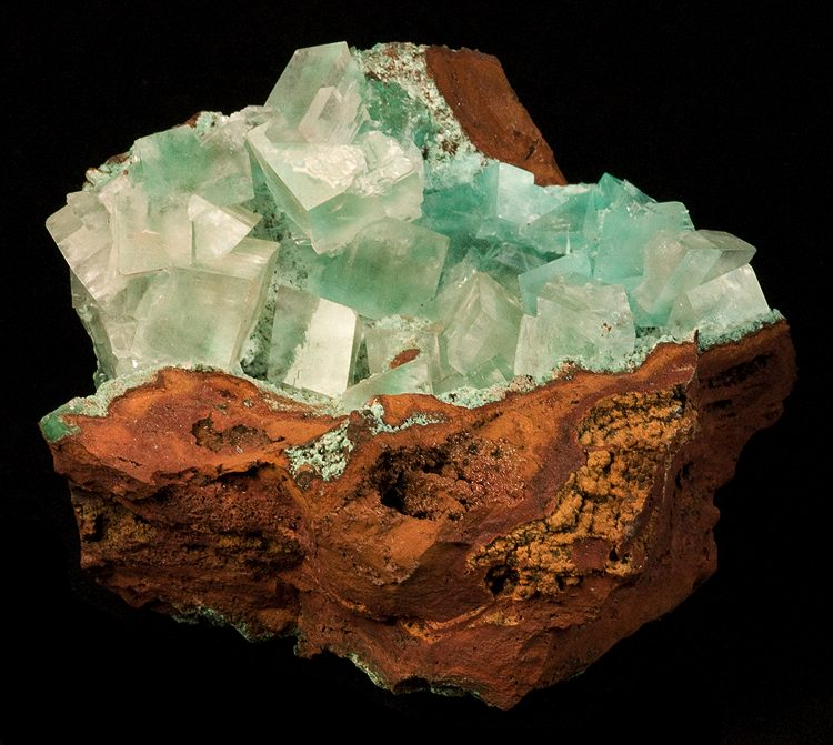 Aurichalcite, Calcite Locality: Ojuela Mine, Mapimí, Municipio de Mapimí, Durango, Mexico (Locality at ) Size: 9.0 x 8.0 x 6.5 cm. The Mina Ojuela has produced a new find of this beautiful and striking combination material. Glassy, transparent calcite rhombs to 1.8 cm across are richly and aesthetically strewn in a sculptural vug in starkly contrasting, sturdy gossan matrix. The vug is lined with beautiful, robin’s-egg-blue aurichalcite. Some of the calcite rhombs are included with aurichalcite and some are not, which really adds to the attractiveness of this fine piece.